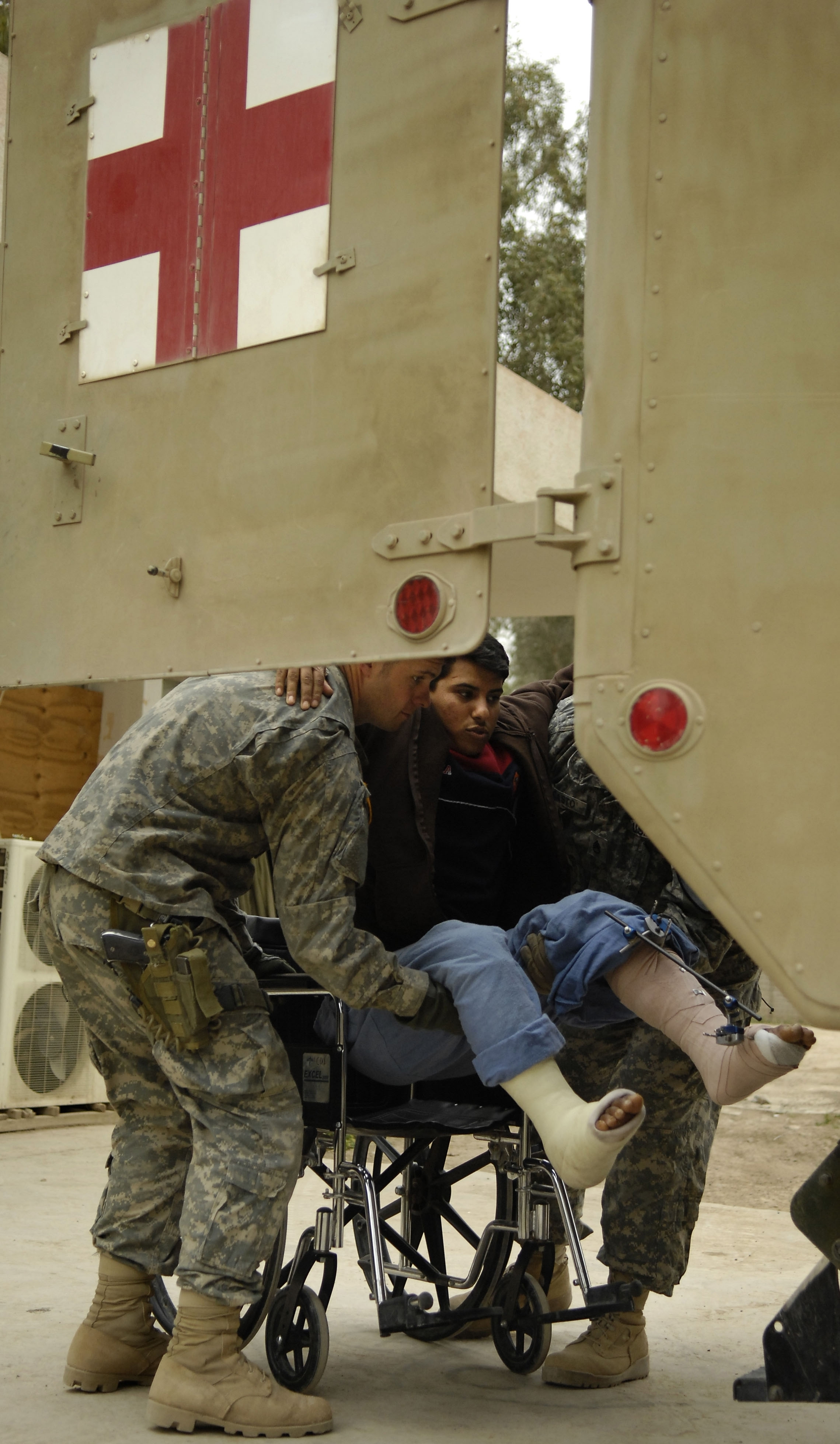 Sergeant Michael Daugherty, a medic from the 1st Cavalry Division, lifts a wounded Iraqi police officer into an ambulance at Forward Operating Base Normandy 2 March 2007. Very few Iraqi casualties end up in American facilities now that the Iraqi military medical system has been brought up to speed with significant improvements.